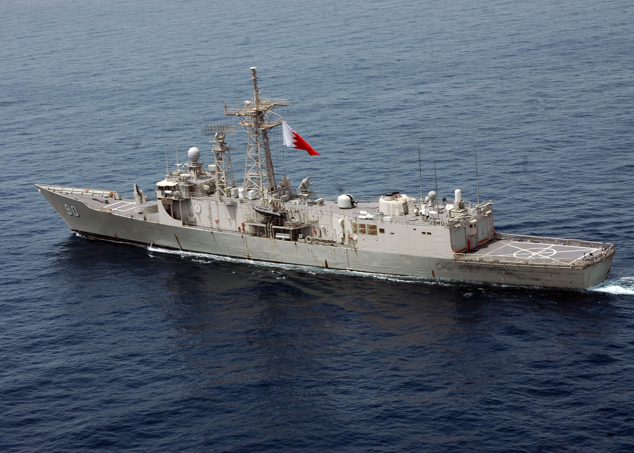 RBNS Sabha (FFG 90) participates in Exercise Arabian Shark. The multilateral exercise, led by Combined Task Force (CTF) 152, brought together U.S., Bahrain and other Coalition partners and focused on building Coalition interoperability and improving anti-submarine warfare (ASW) capabilities.